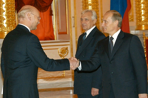 Justin Harman, Ambassador of Ireland, presenting his credentials to President of Russia, Vladimir Putin